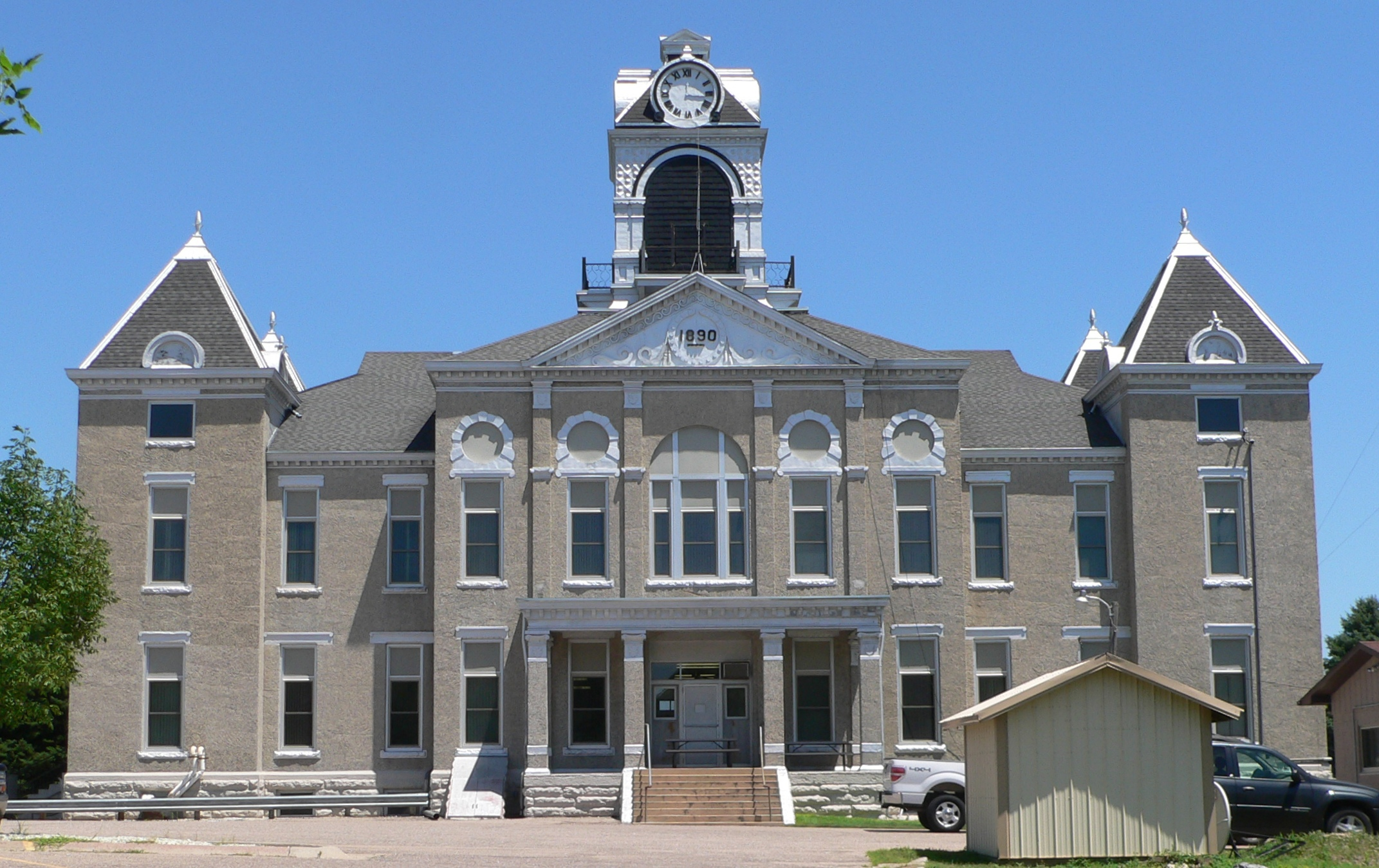 Nuckolls County Courthouse in Nelson, Nebraska; seen from the west. The Classical Revival courthouse was built in 1890, and is listed in the National Register of Historic Places. At the time the photo was taken, the west face of the tower clock did not display the correct time.